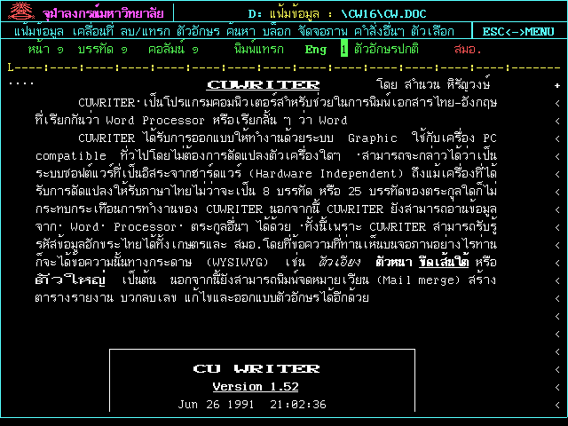 Screenshot of CU Writer via DOSBox (This software is a public domain software.)